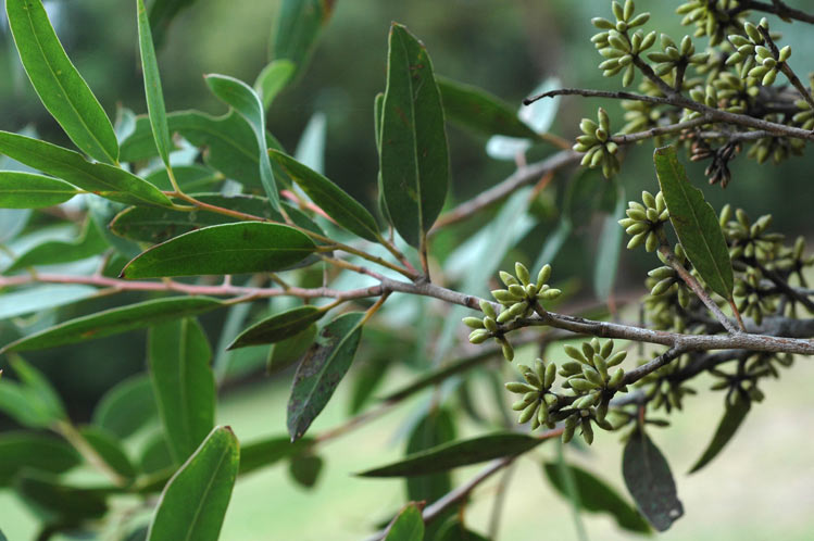 Eucalyptus sparsifolia foliage and flower buds in the Australian National Botanic Gardens